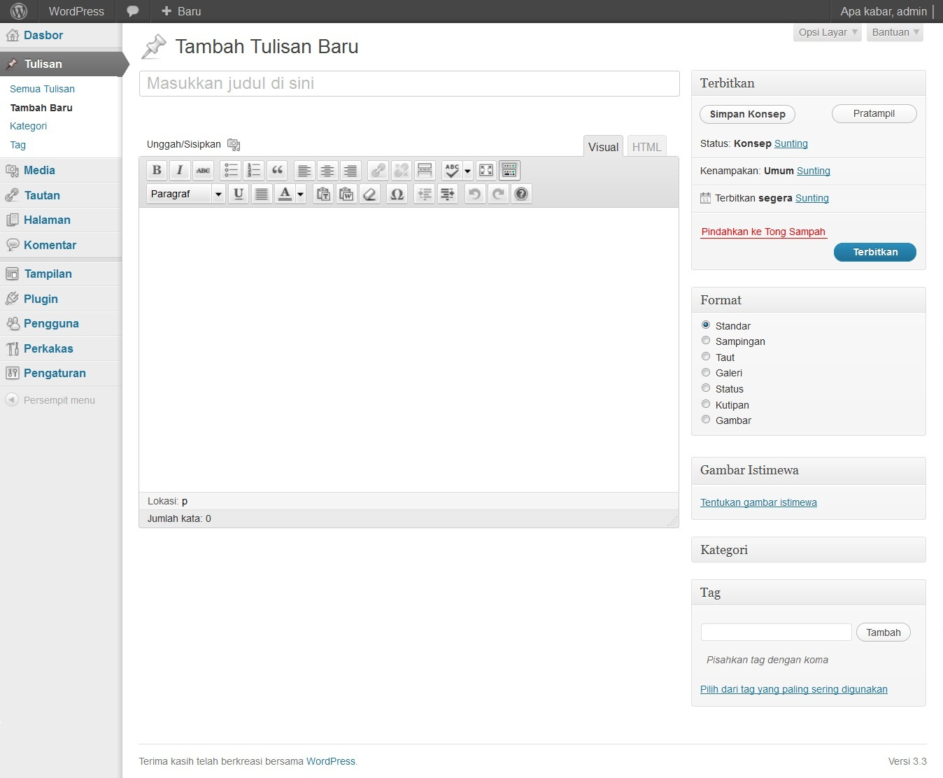 Wordpress 3.3 administration screenshot in Indonesian language